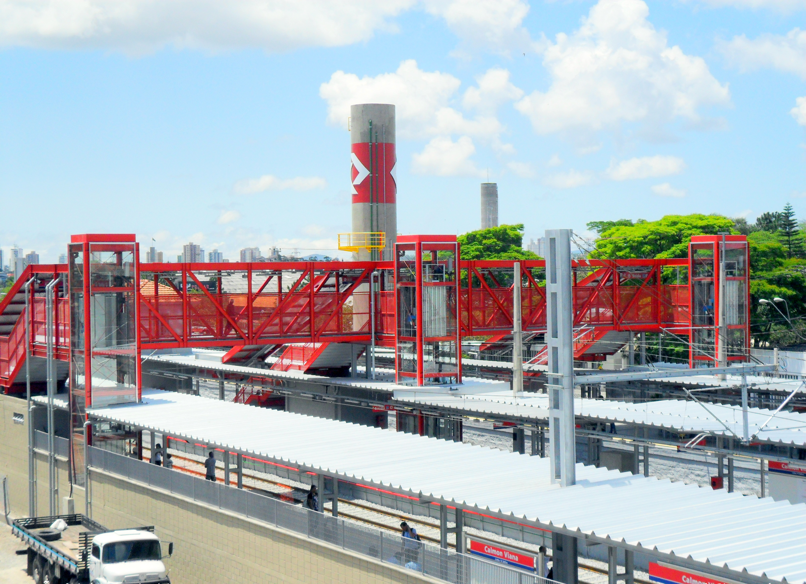 Calmon Viana Station (CPTM)